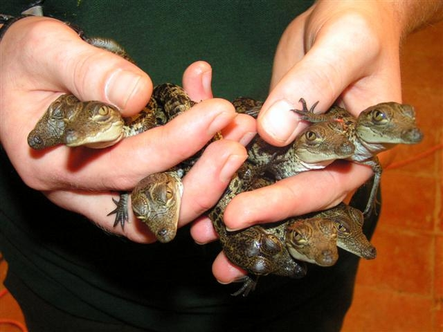 Baby Morelett's Crocodiles born at Cotswold Wildlife Park October 2007